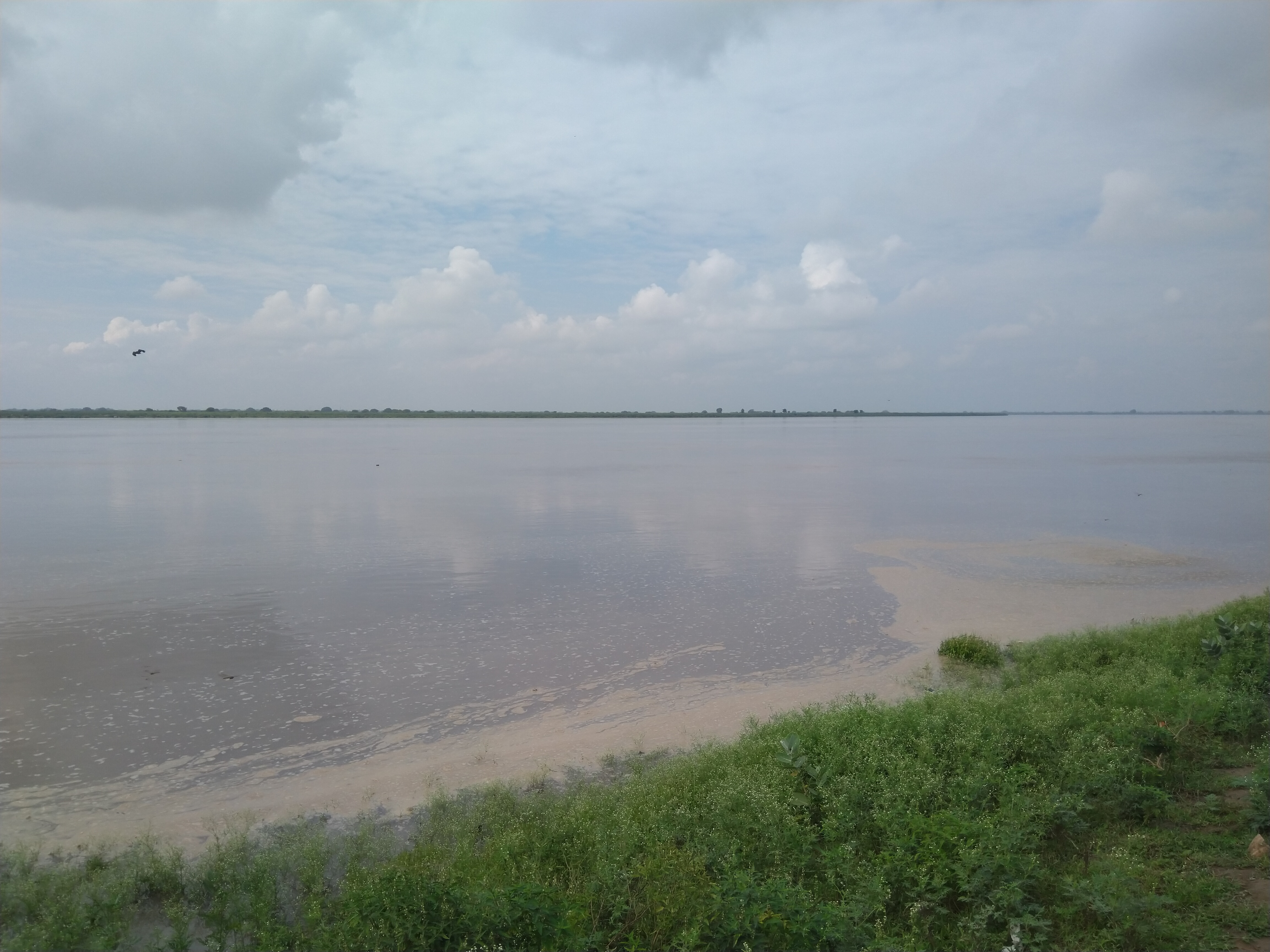 Lilapur Khurd